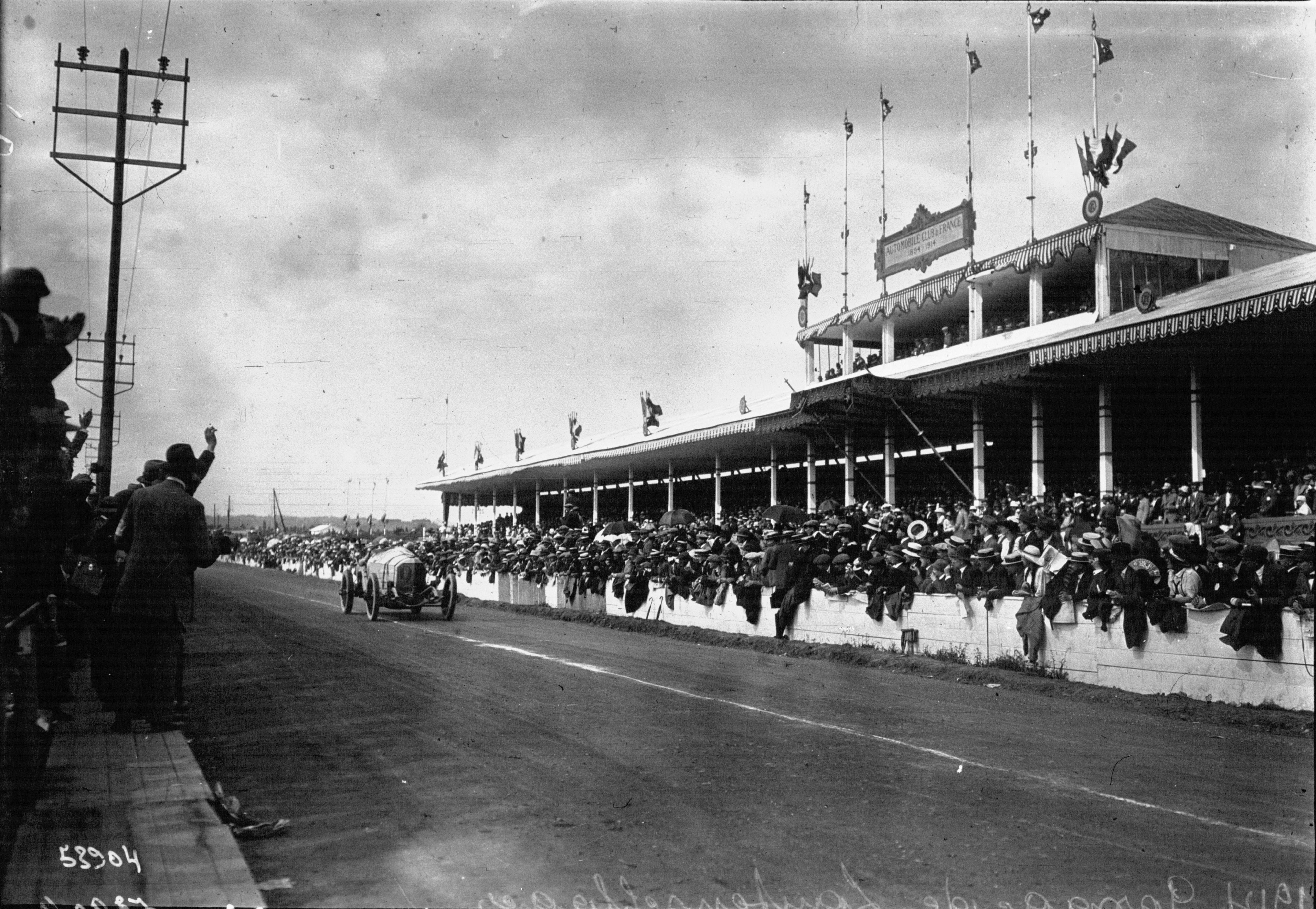 Christian Lautenschlager at the 1914 French Grand Prix.